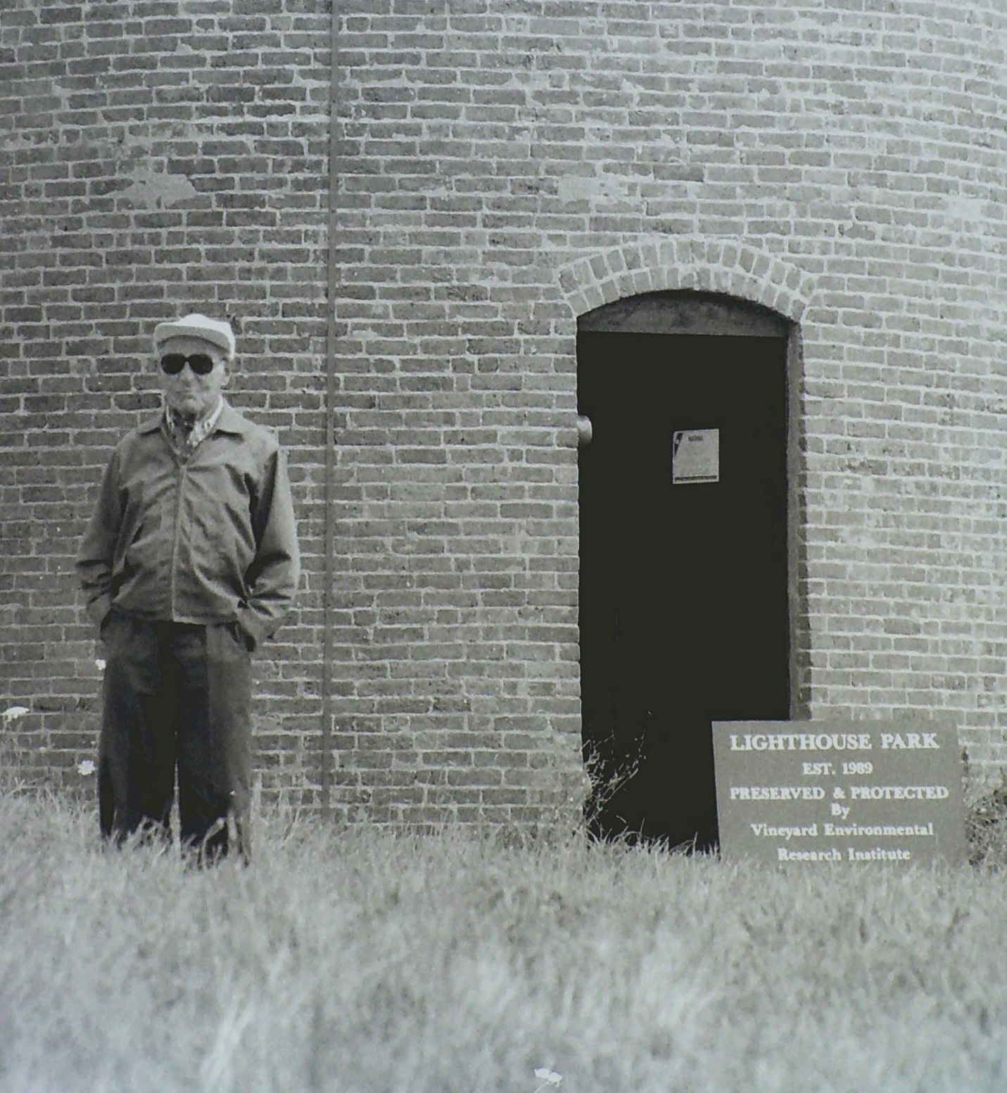 Alfred Eisenstaedt, world renowned photographer, at the Gay Head Light on the island of Martha's Vineyard off the coast of Massachusetts. Eisenstaedt photographed the island's lighthouses over the years beginning in the 1950s. He was a staunch supporter of the effort by Vineyard Environmental Research, Inst. (VERI) to save three of the island's lighthouses during the 1980s, and was the focus of three VERI lighthouse fundraisers. Eisenstaedt was close friends with William E. Marks, the founder and President of VERI. One of Eisenstaedt's famous photographs of the Gay Head Light depicts the lighthouse with the attached three-story Gambrel-style Keeper's house, along with a garden that contained a scarecrow. In August 1995, about two weeks before his death, Eisenstaedt was the center of a VERI lighthouse fundraiser at the Edgartown waterfront home of legendary auto magnate, Ernie Boch.